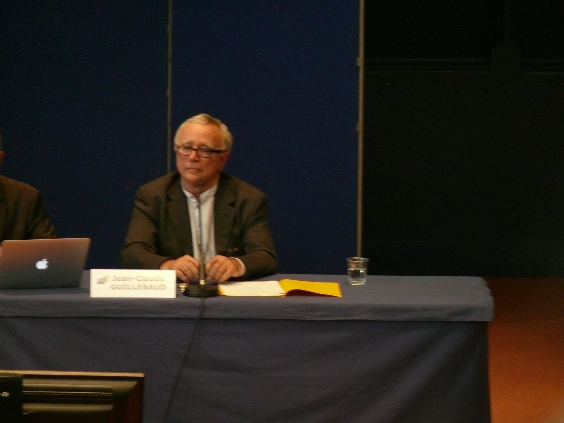 Jean-Claude Guillebaud at the Semaines Sociales de France 2014 at Université Catholique de Lille (Nord, France).